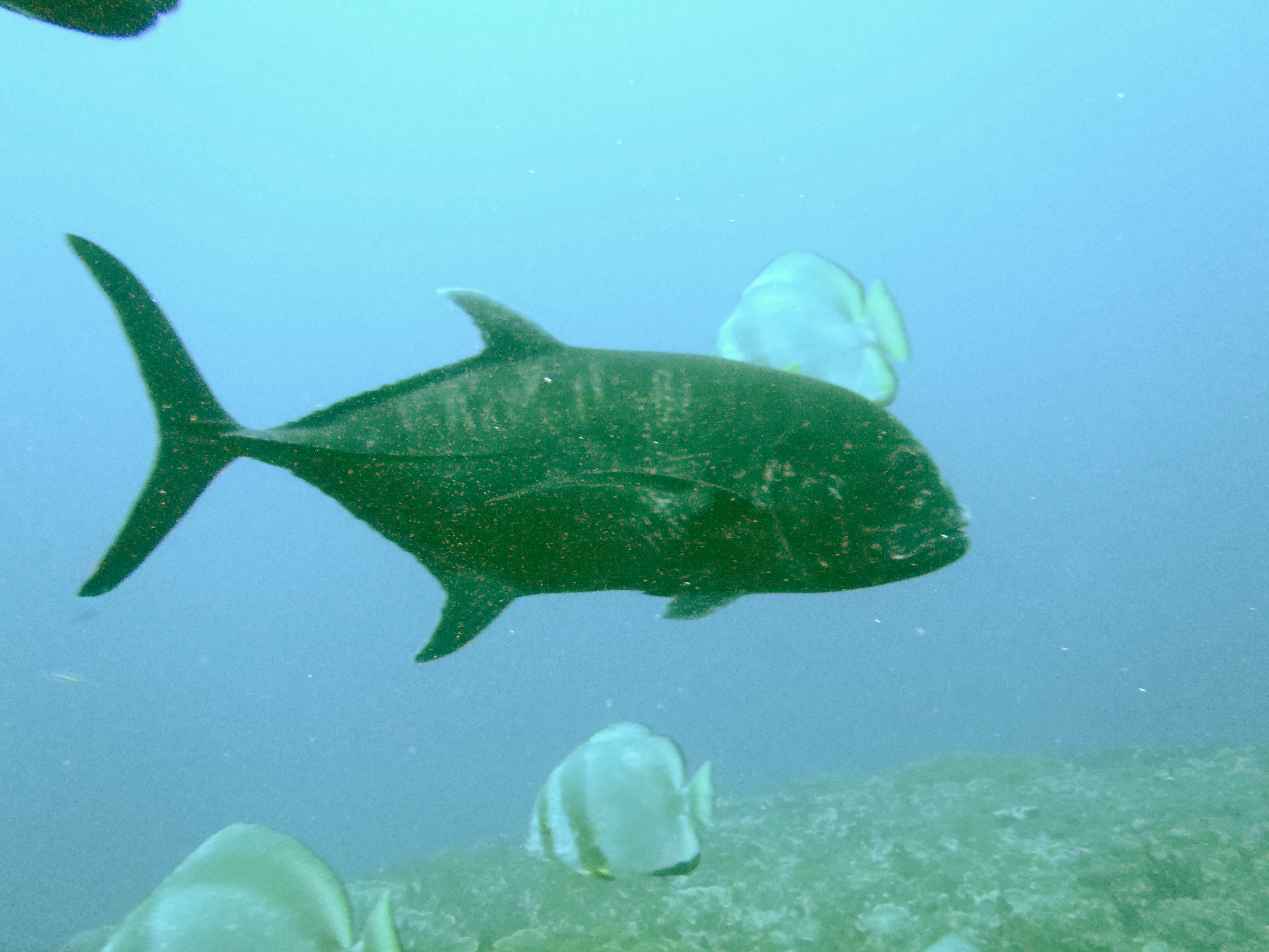 Giant Trevally swimming freely at Guam's Gab Gab II reef in Apra Harbor